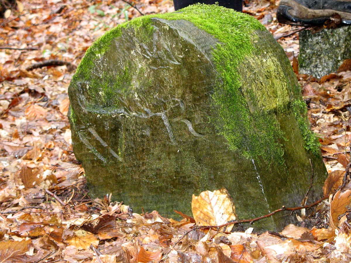 Historical Boundary stone of the border Wied-Runkel. (set 1772/73)